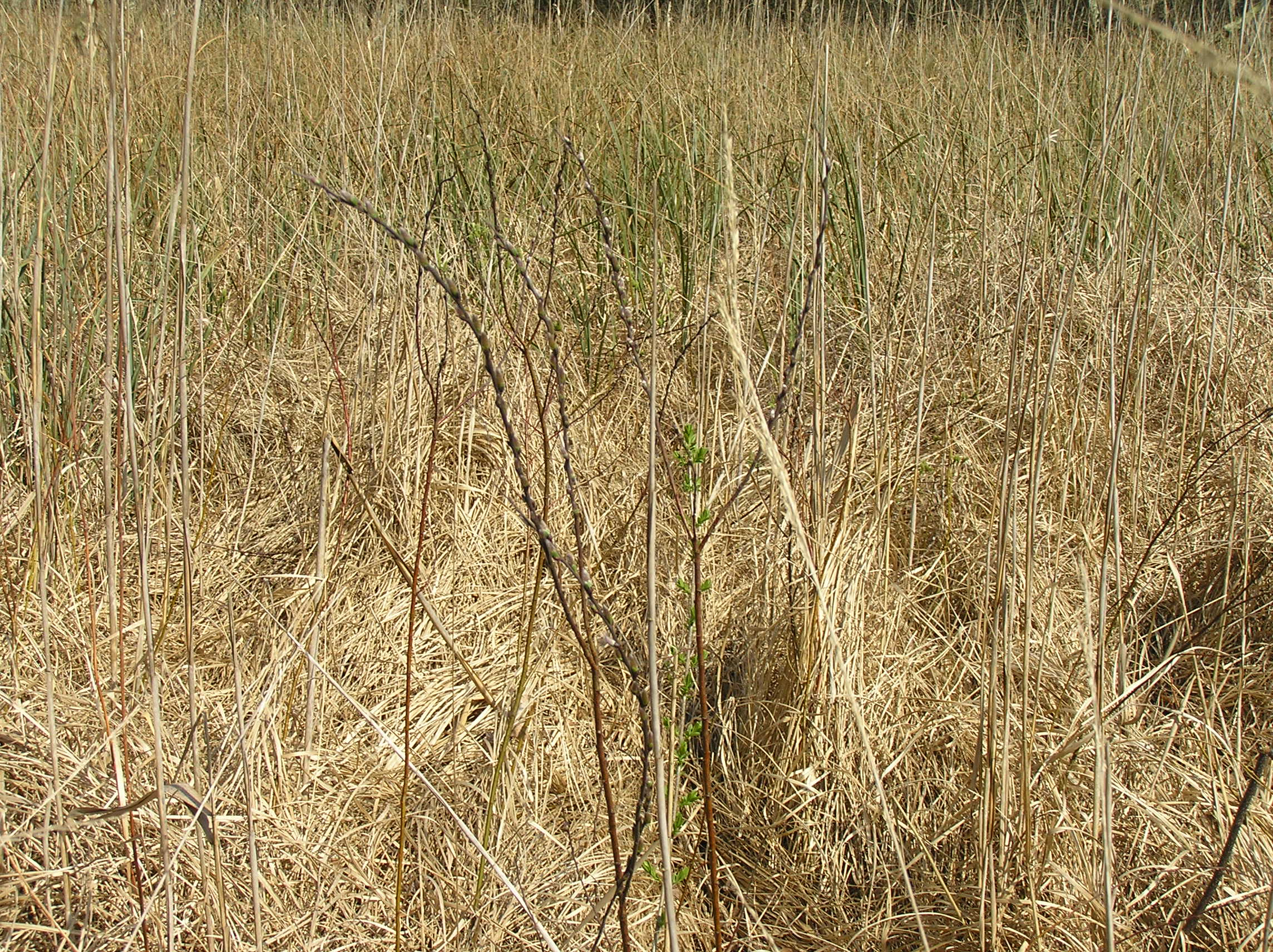 This photo shows the Godwin plot which is cut every three years. It shows the growth of sedge and some small amount of shrubs.